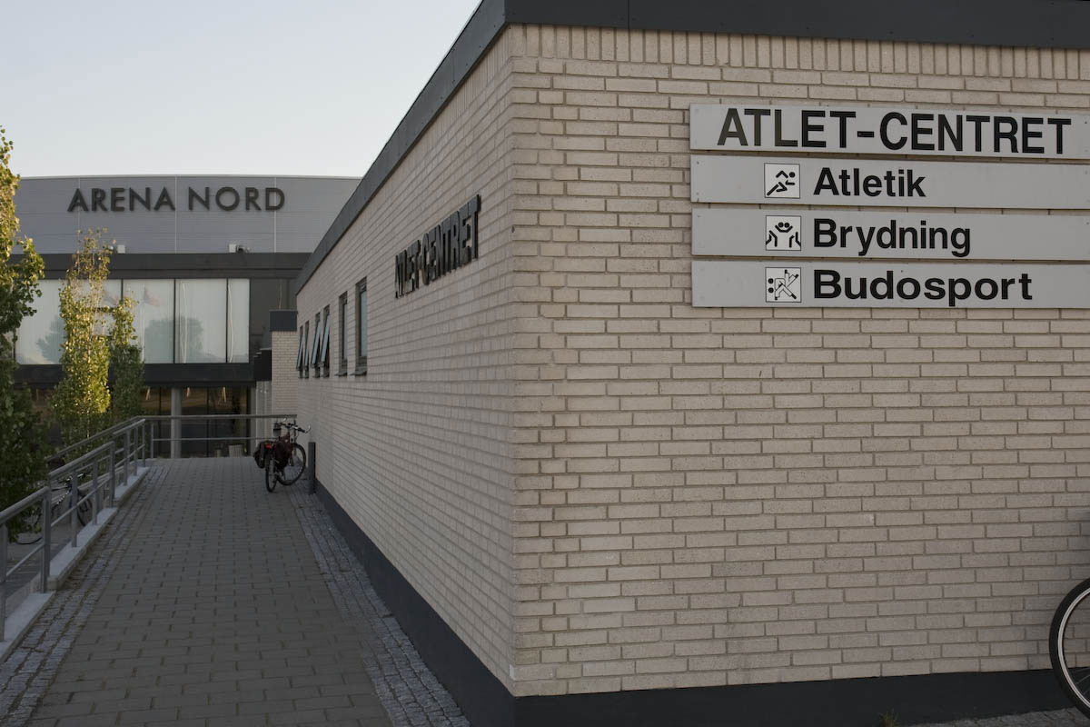 Centre for various sport activities, Arena Nord, Frederikshavn, Denmark